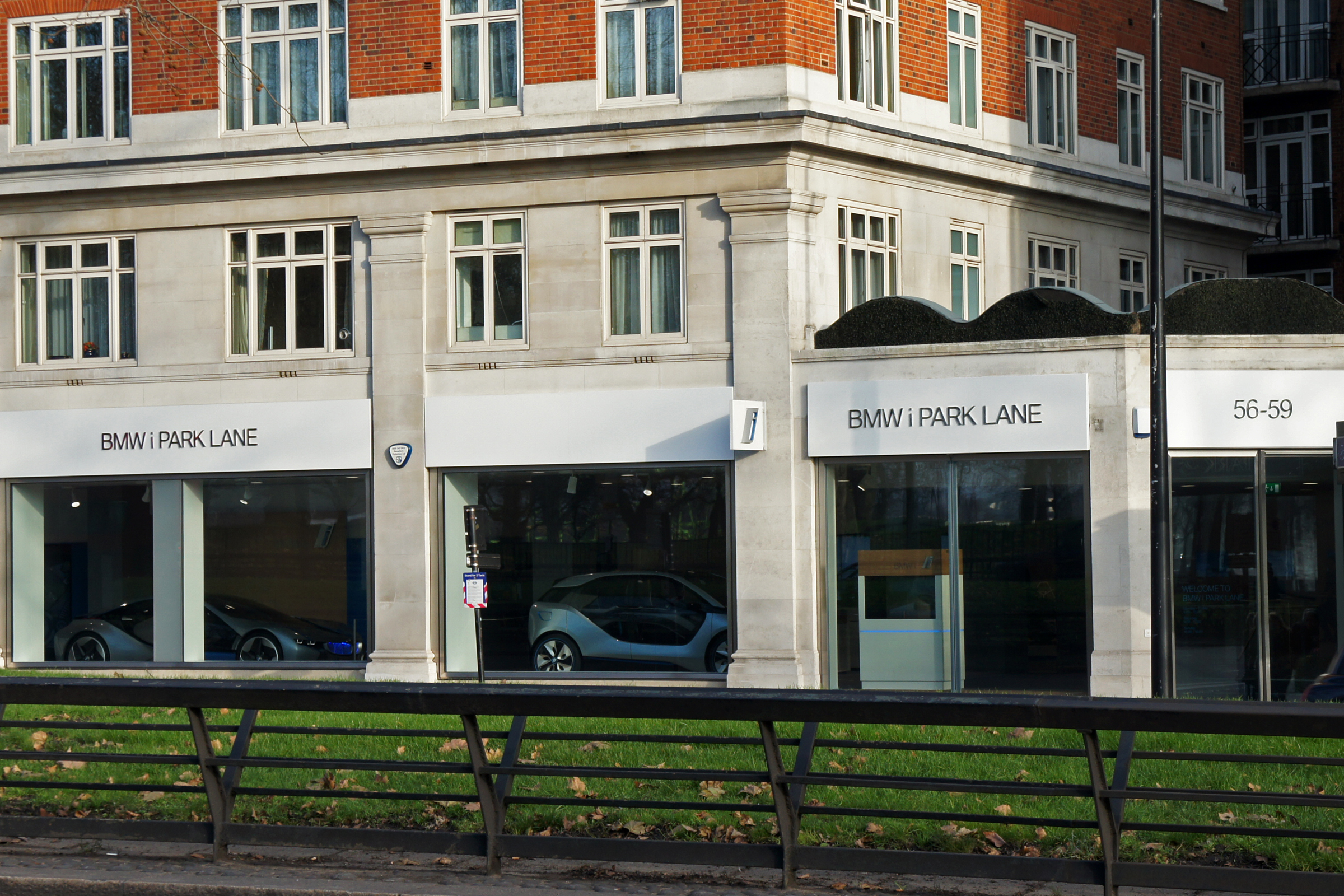 BMWi showroom located in Park Lane, London